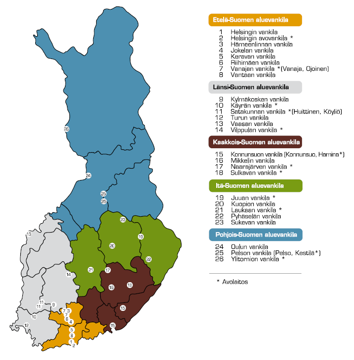 The organisational structure of the Finnish bureau of prisons